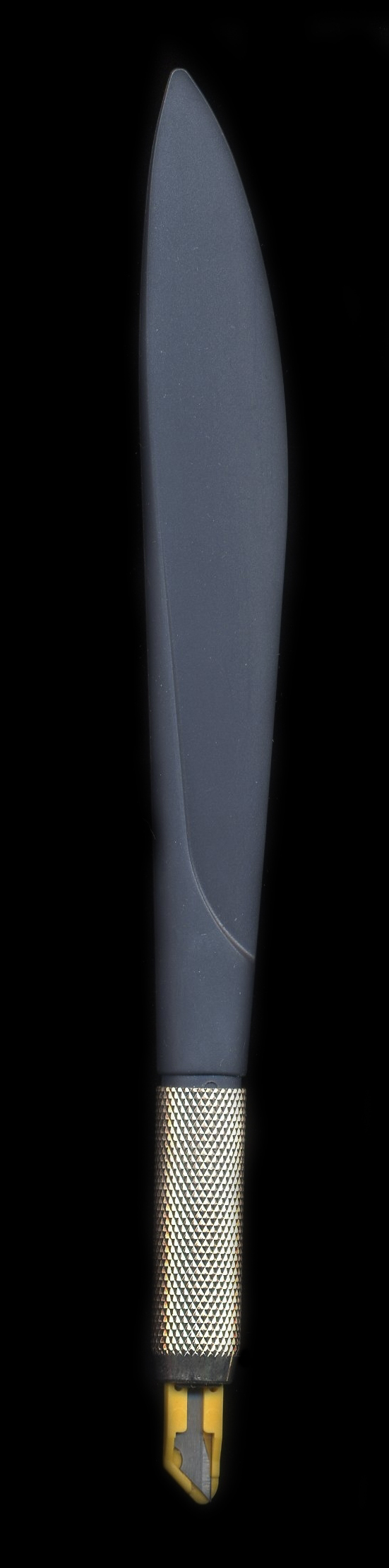 Scrapbook Cutter